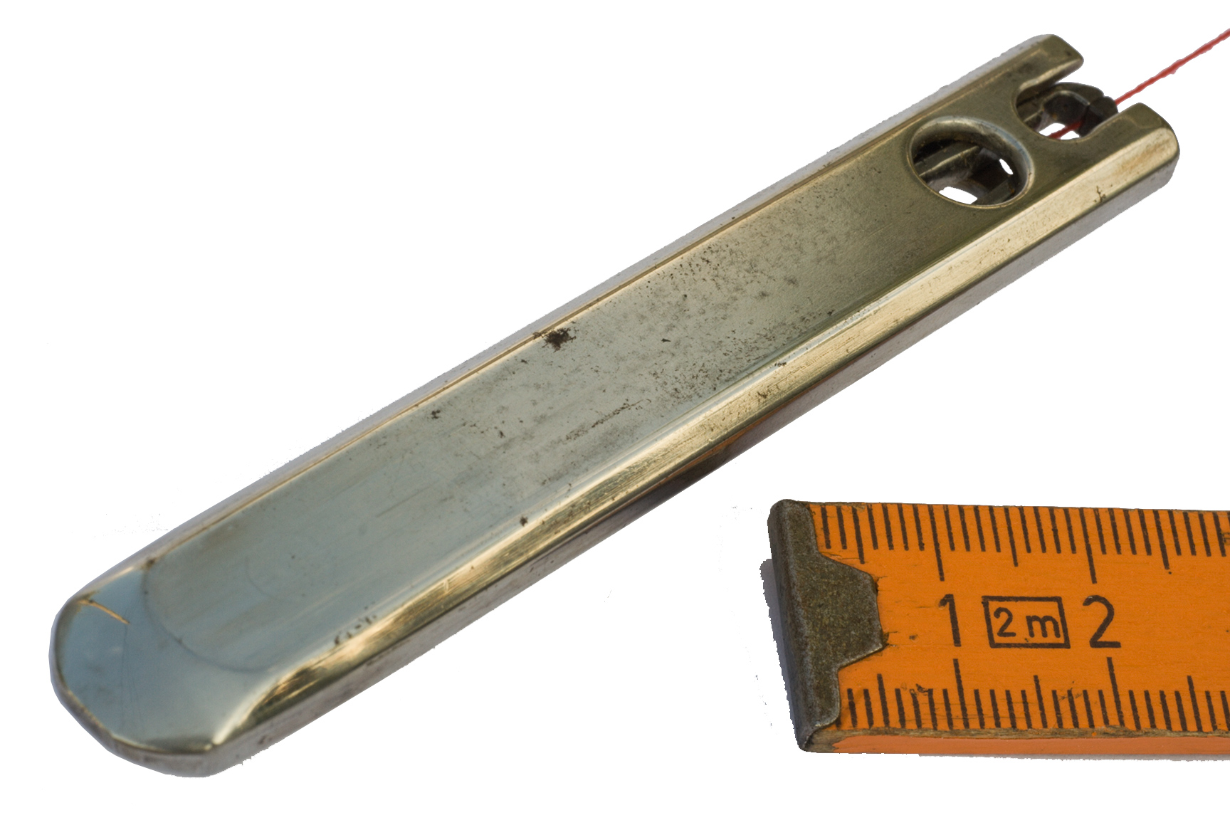 Projectile of a weaving machine with clamped weft